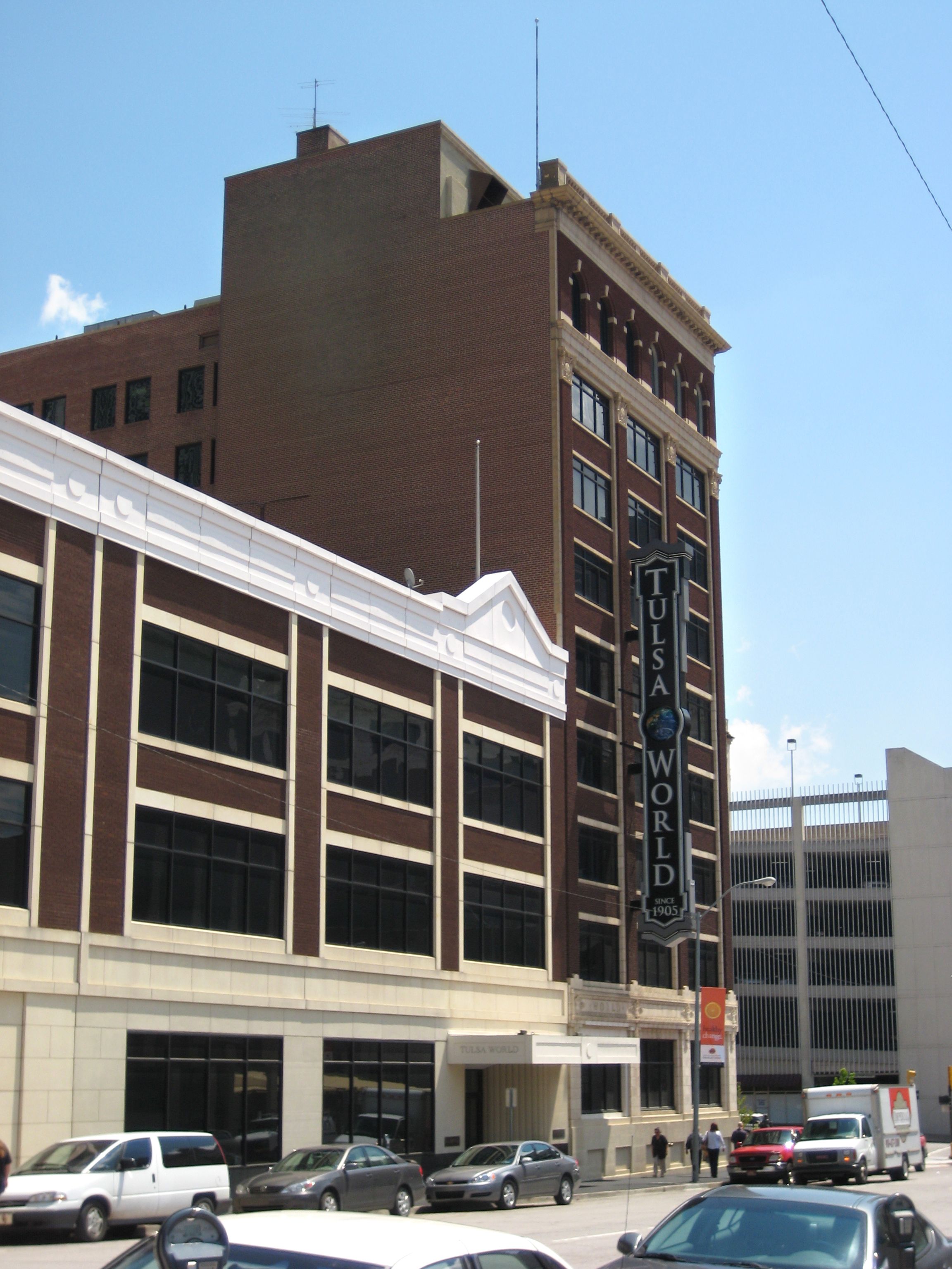 The headquarters of the Tulsa World